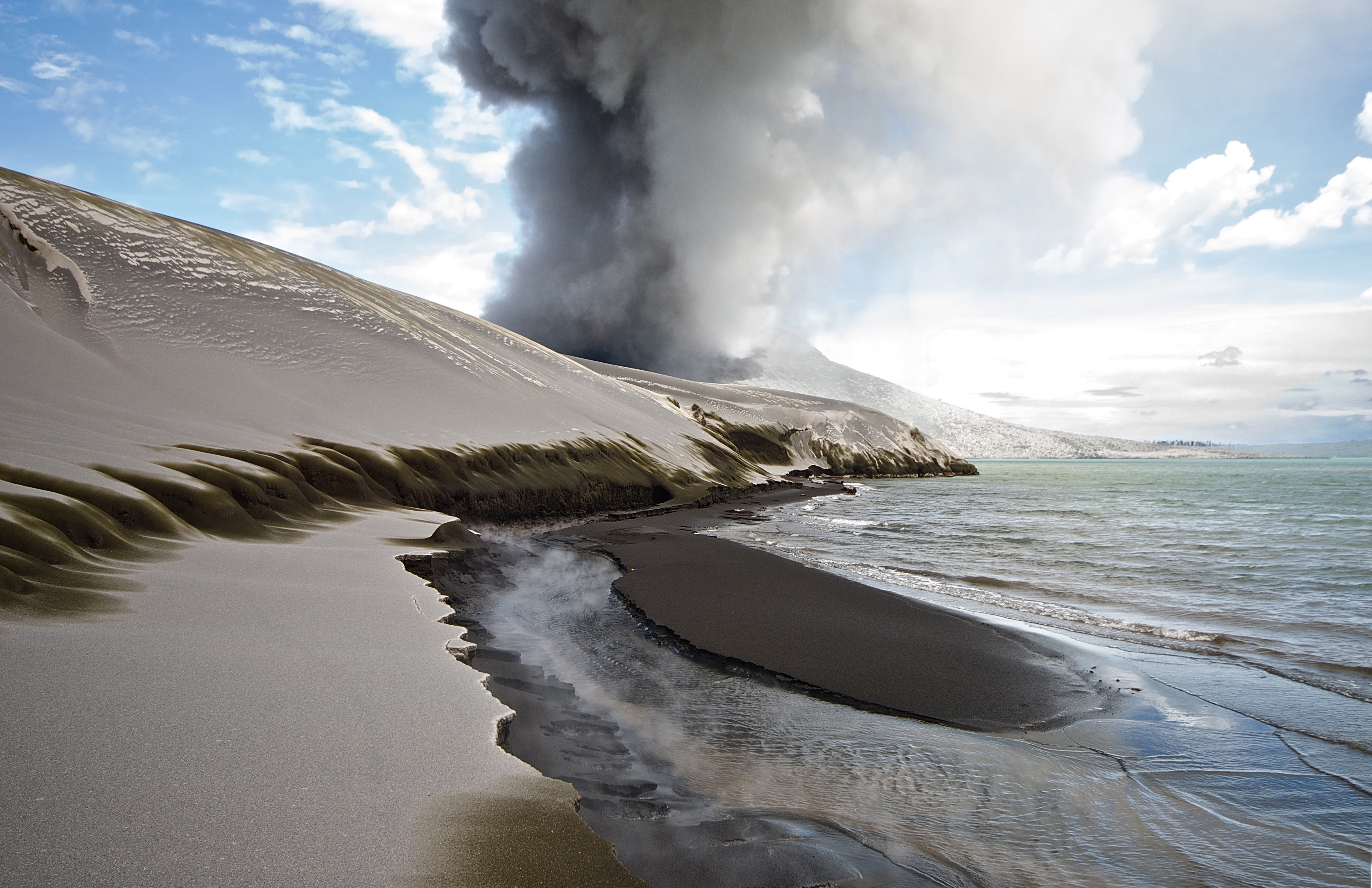 Volcanic Ash Dunes of Tarvurvur, Rabaul, Papua New Guinea.